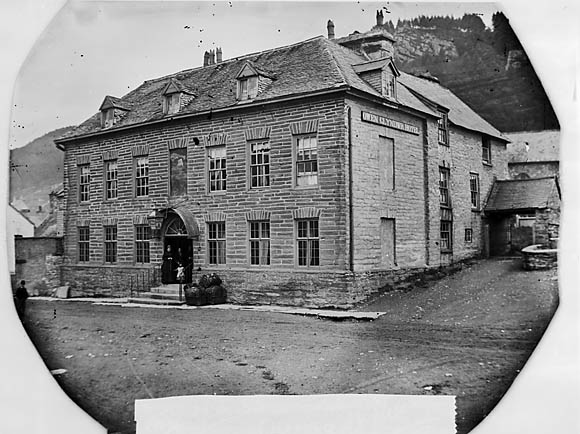 1 negative : glass, wet collodion, b&w ; 12 x 16.5 cm.